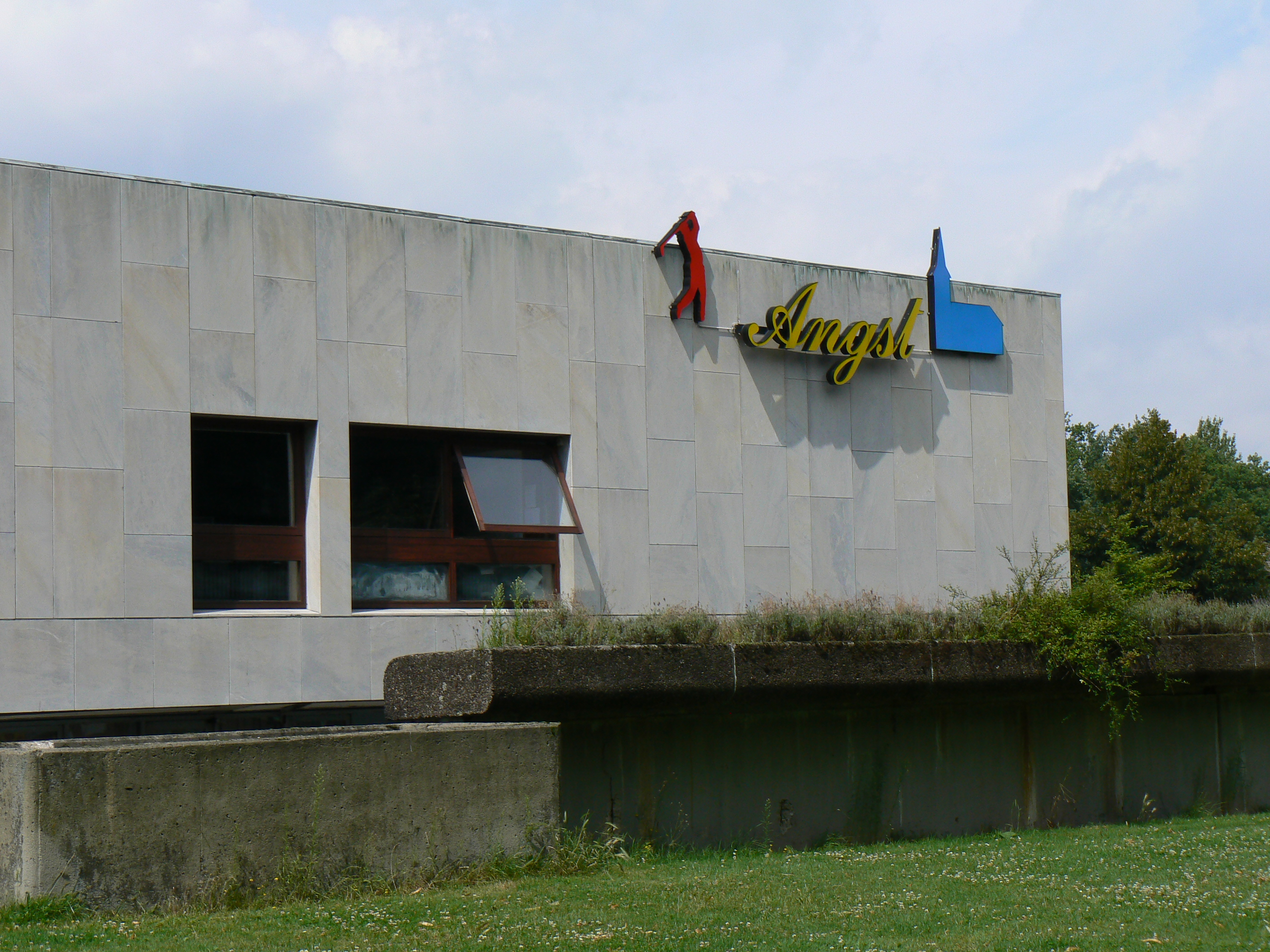 Collection: Skulpturenmuseum Glaskasten Location: City Center Marl/Germany Sculpture: Neon Art : Angst 1989 Sculptor: Ludger Gerdes